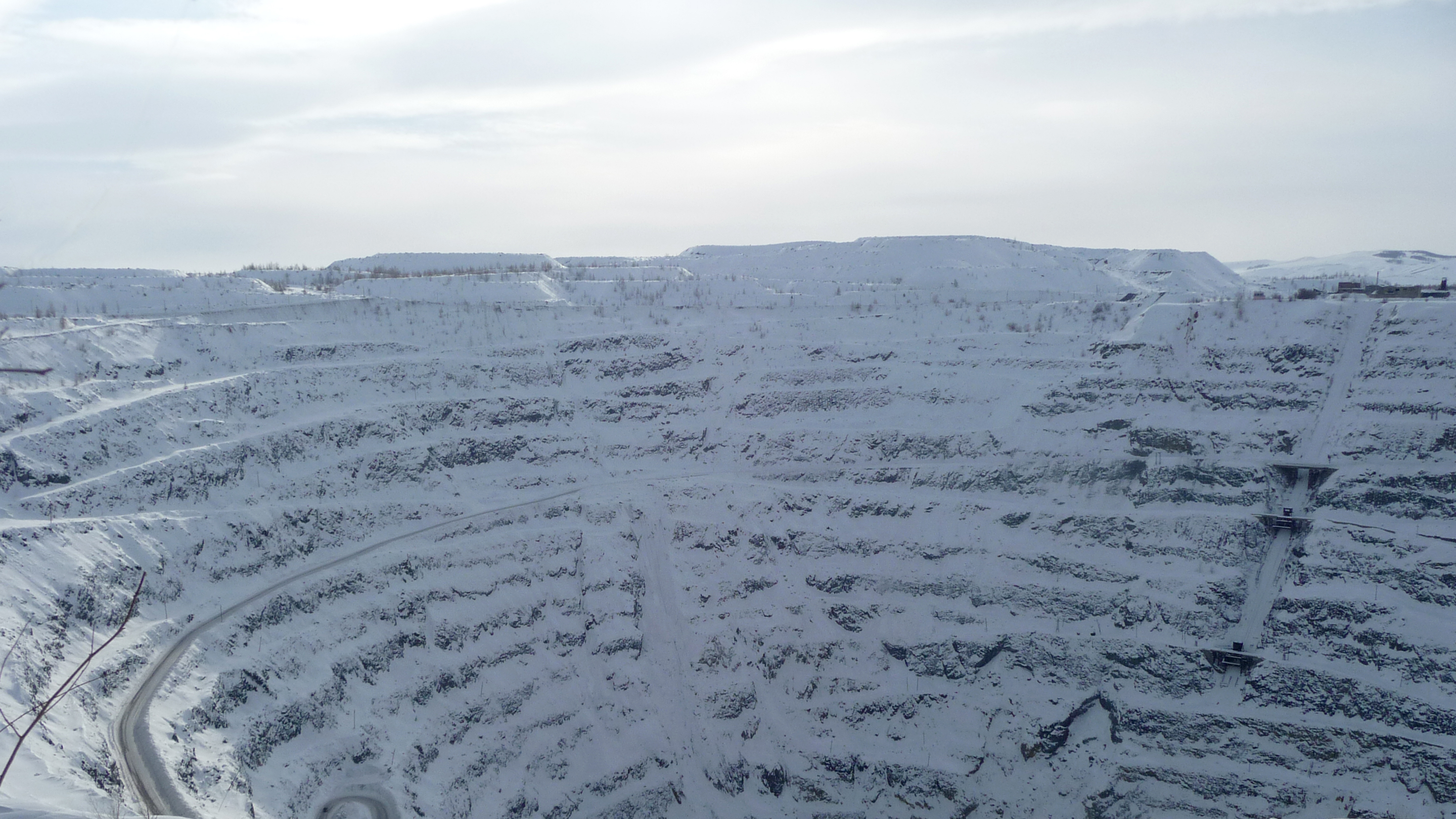 Copper quarry in Sibay, Russia (at spring). It almost 2 km wide and 500 meters deep. Note size of buildings at right corner.